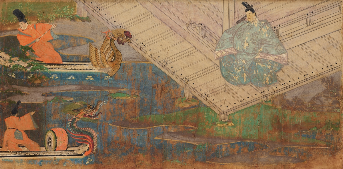 Part of the Murasaki Shikibu Nikki Emaki held at Fujita Art Museum and designated as National Treasure in the category "paintings".